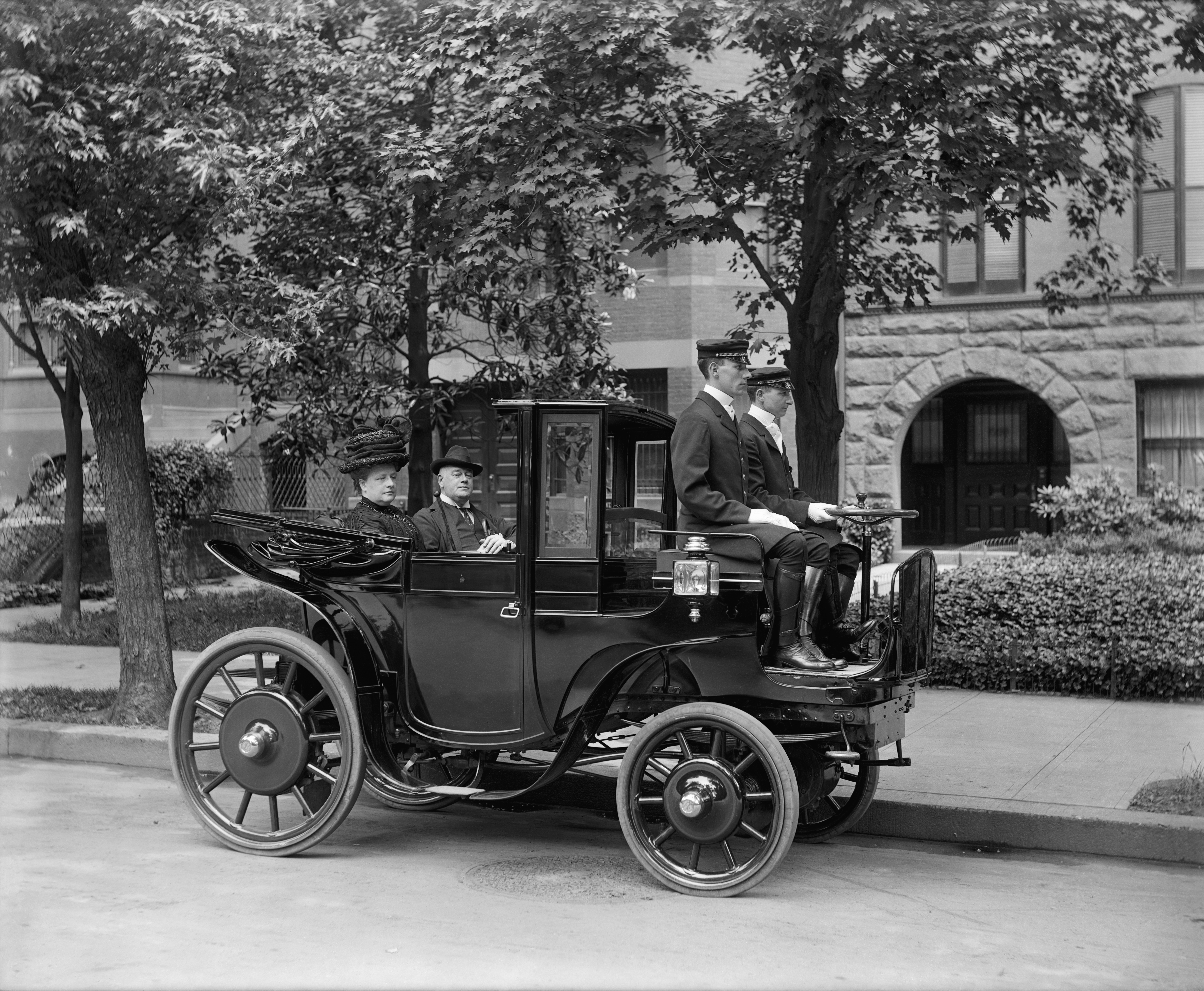 Senator George P. Wetmore of Rhode Island in a Krieger "Landaulette" automobile, circa 1906. Senator Wetmore is in back with woman, presumably his wife. A driver and footman are in front of vehicle. : Note: Some information about the image not in Library of Congress description via discussion at [1].